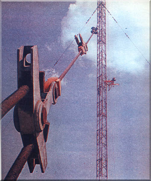 The Warsaw radio mast which was the world's tallest structure until its collapse in 1991.